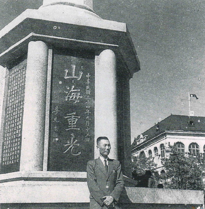 Li Xianliang, KMT Mayor of Tsingtao (Qingdao), standing in front of the Monument of Victory of the Anti-Japanese War, the Monument was rebuilt from the Monument of Governor Jaeschke